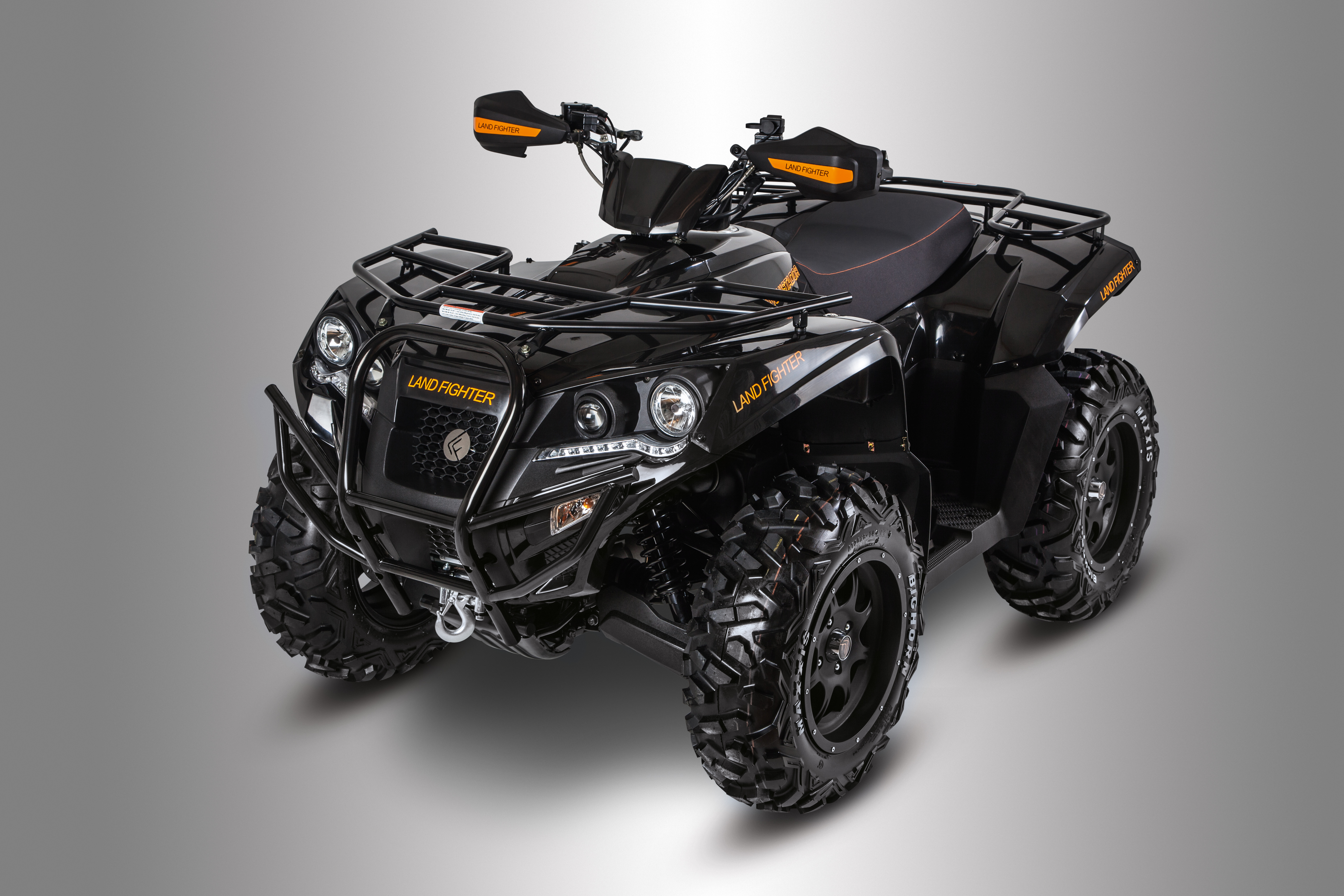 Utility ATV